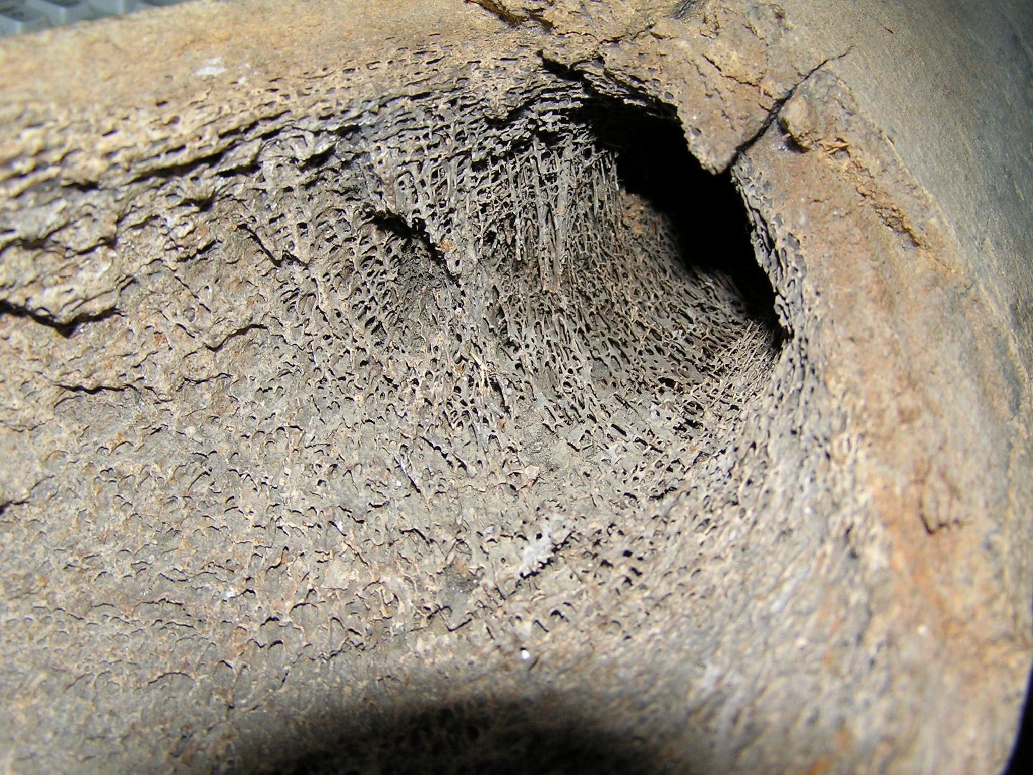 bone, probably limb, of a unknown species